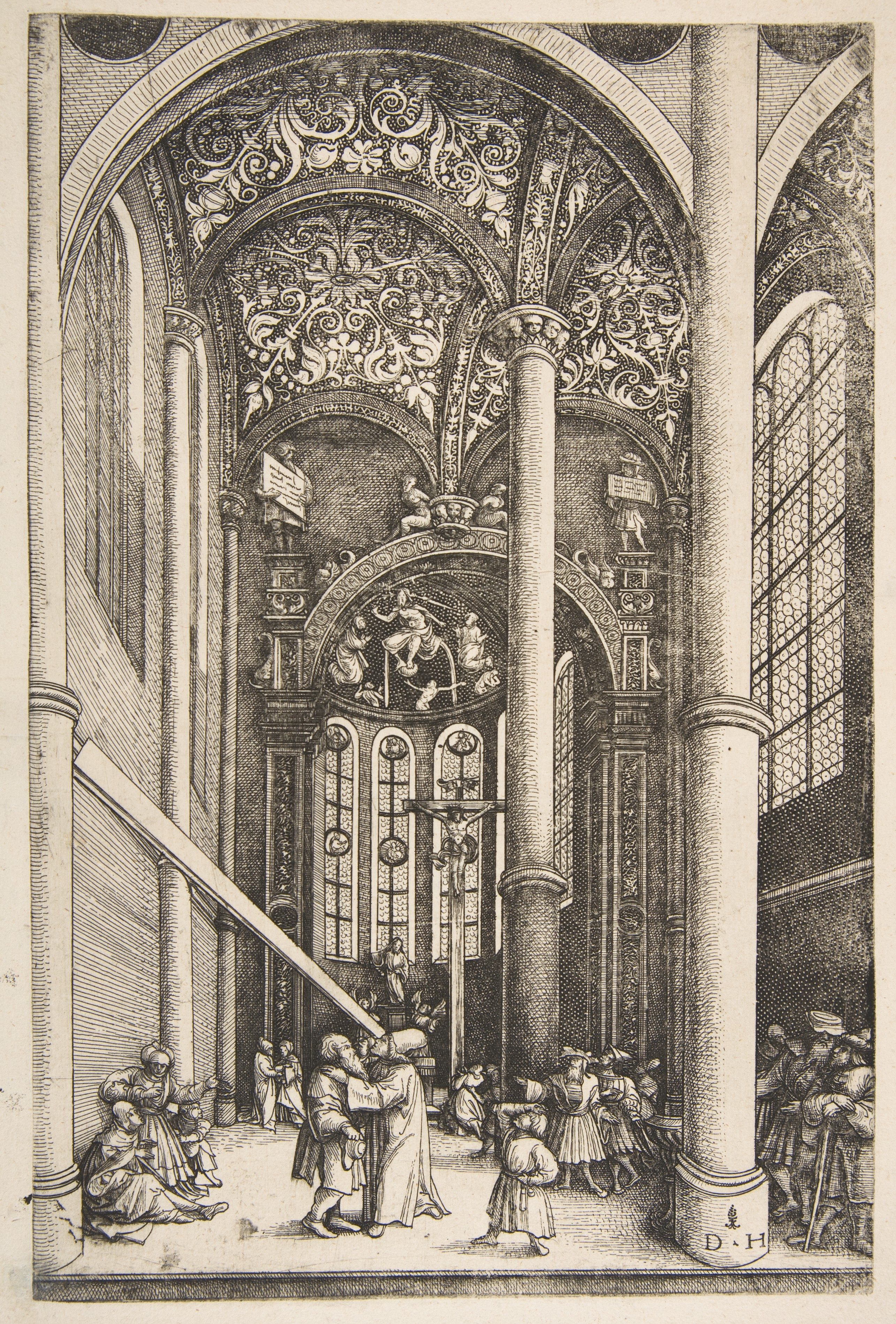 Print; Prints